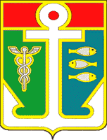 Old Version (1973) of Coat of Arms of Nakhodka